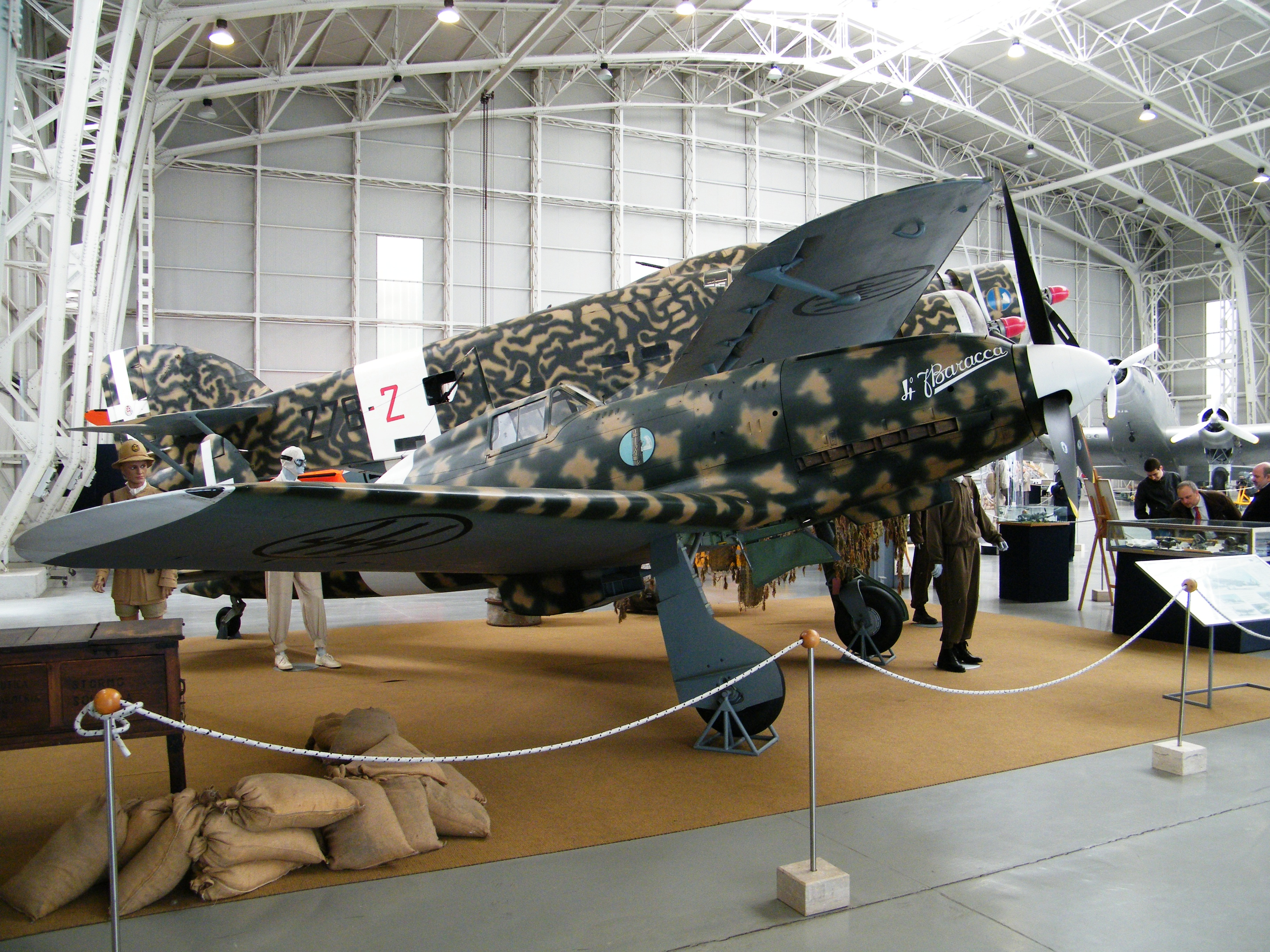 Macchi C.202 at the Italian Air Force Museum, Vigna di Valle in 2012. Background: Savoia-Marchetti SM.79